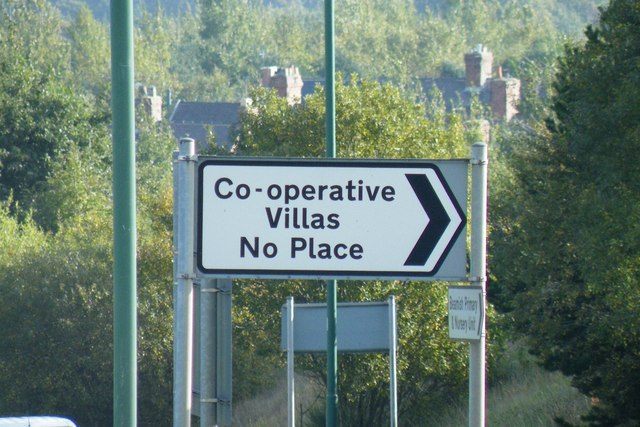 No Place ... Like a Co-operative Home!